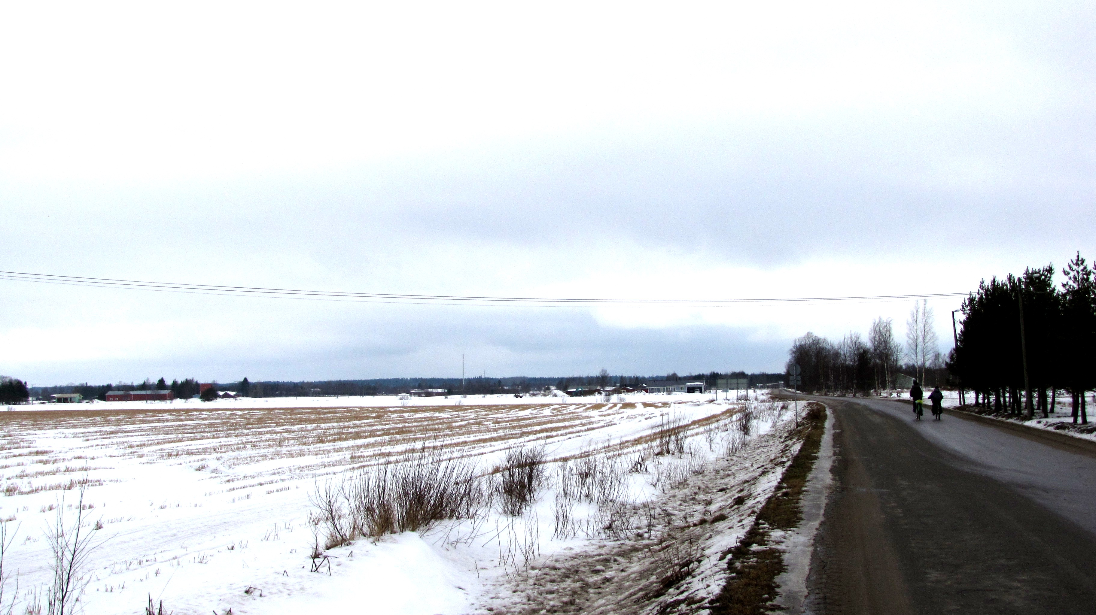 Sotka "village" in Kauhajoki. There are some scenes of Battle of Kauhajoki in the picture.